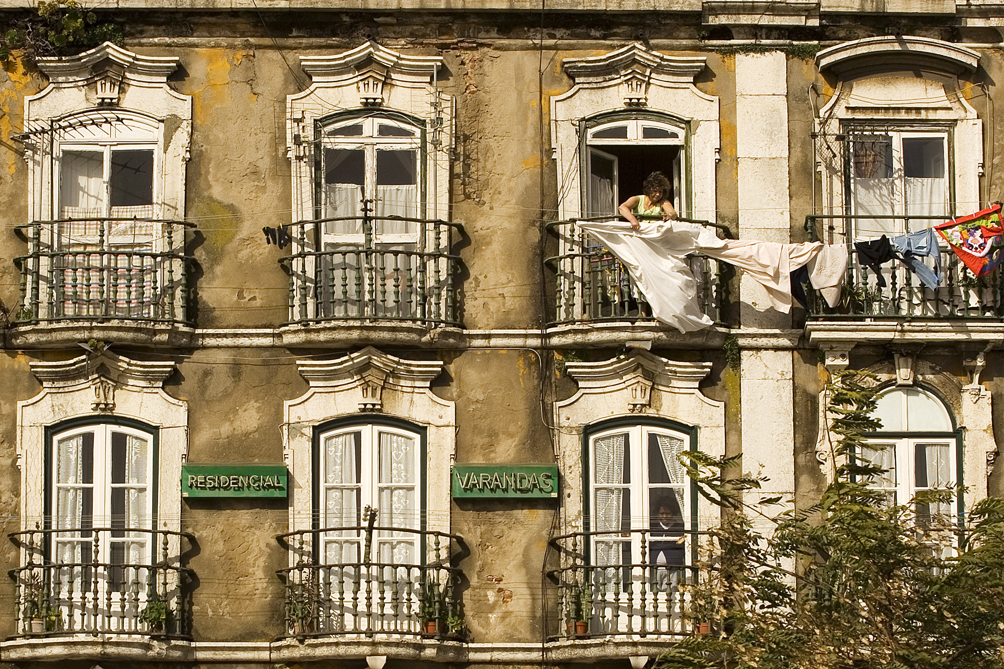 Residencial Varandas a postcard from Lisboa.